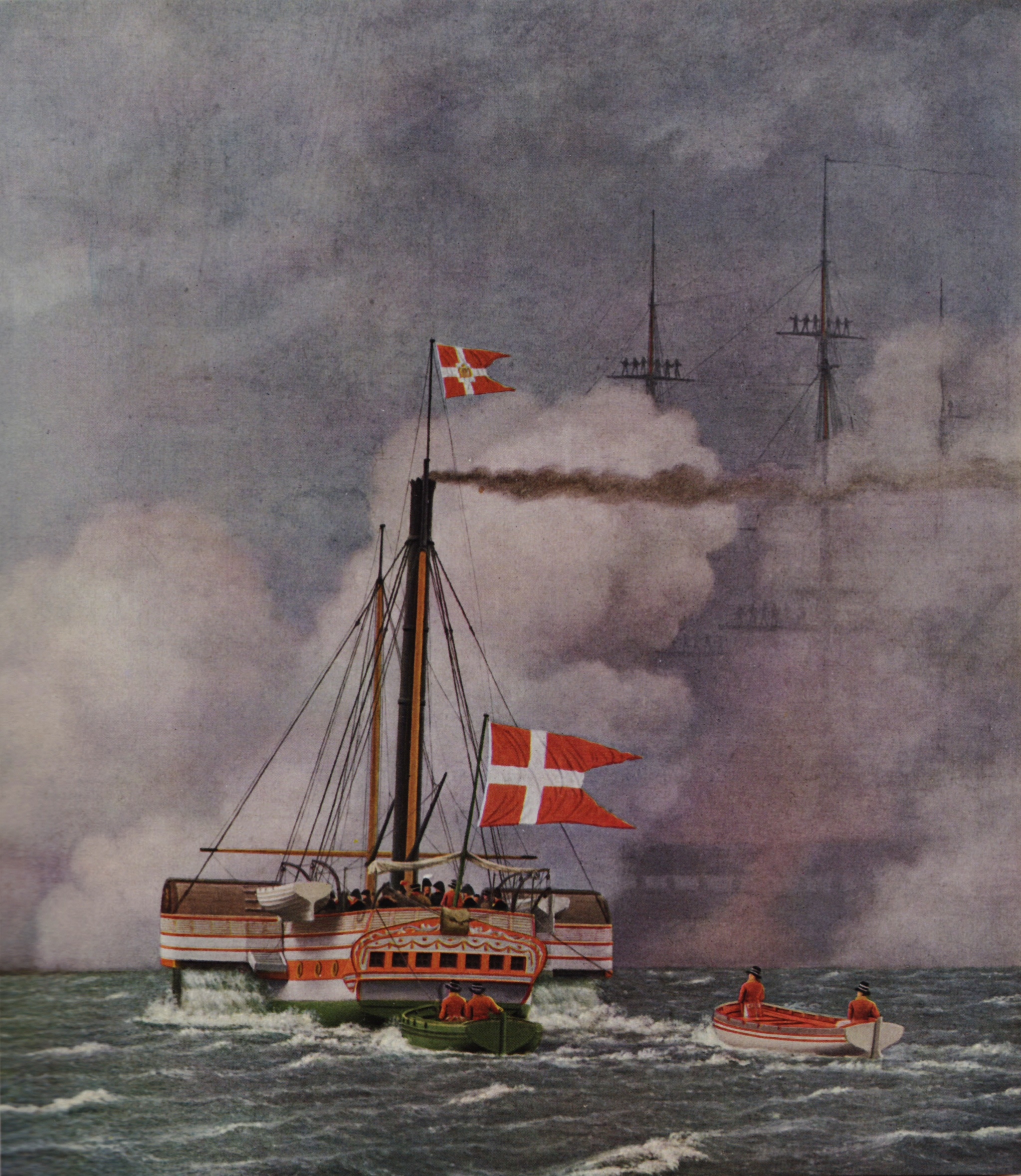 This is a detail of the painting, presumably showing the royal steamer Kiel that served 1824-1840. In the background is the frigate Havfruen with the crew manning the yards.